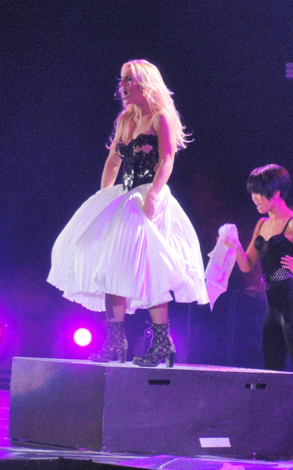 Spears